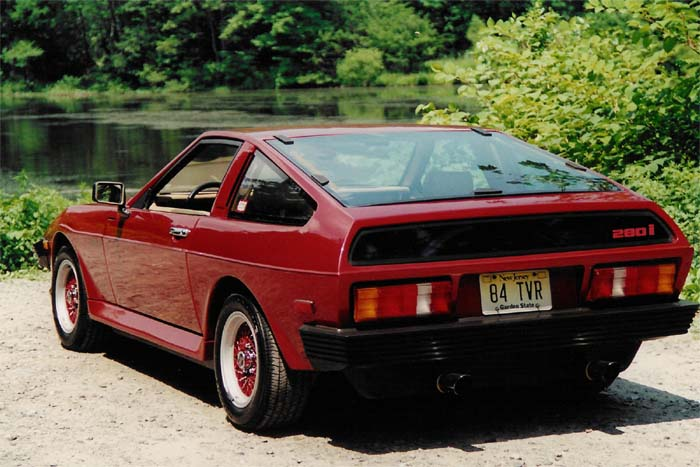 David Zeckhausen, Photo of my own 1984 TVR 280i Coupe